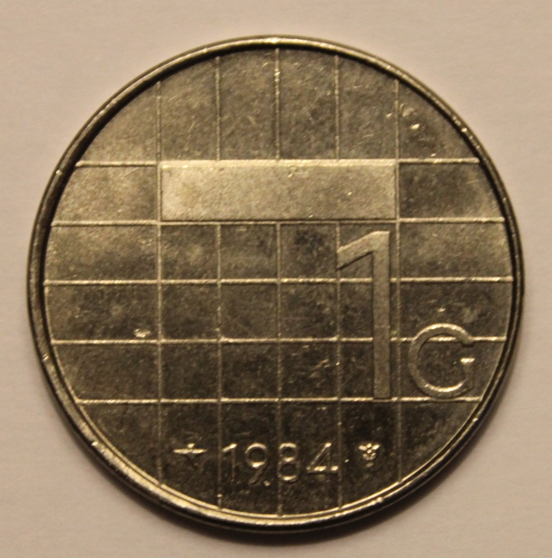 This is the front face of a 1 Dutch guilder coin minted in 1984.